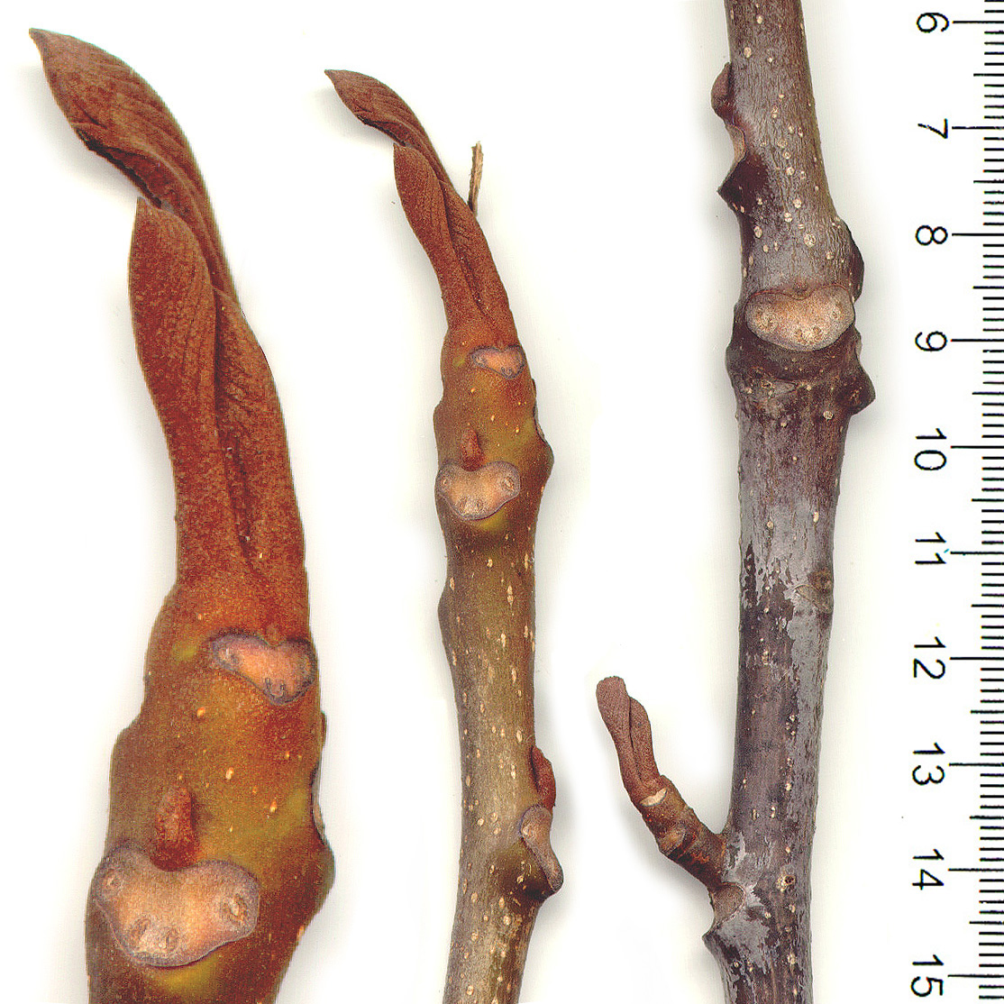 Pterocarya fraxinifolia,twig